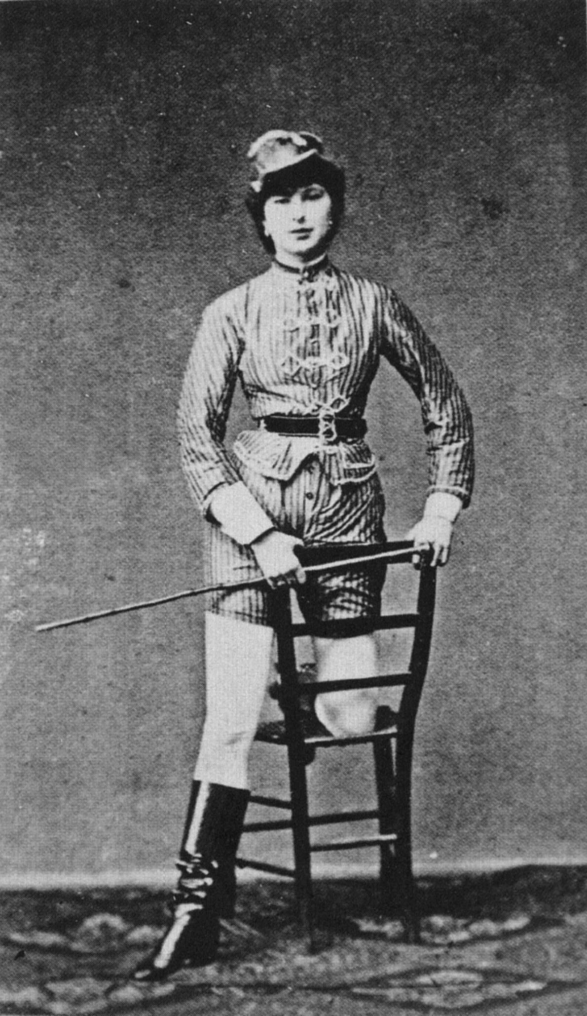 Emilie Turecek (1848–1889), known as Fiaker-Milli. Collection: Wien Museum